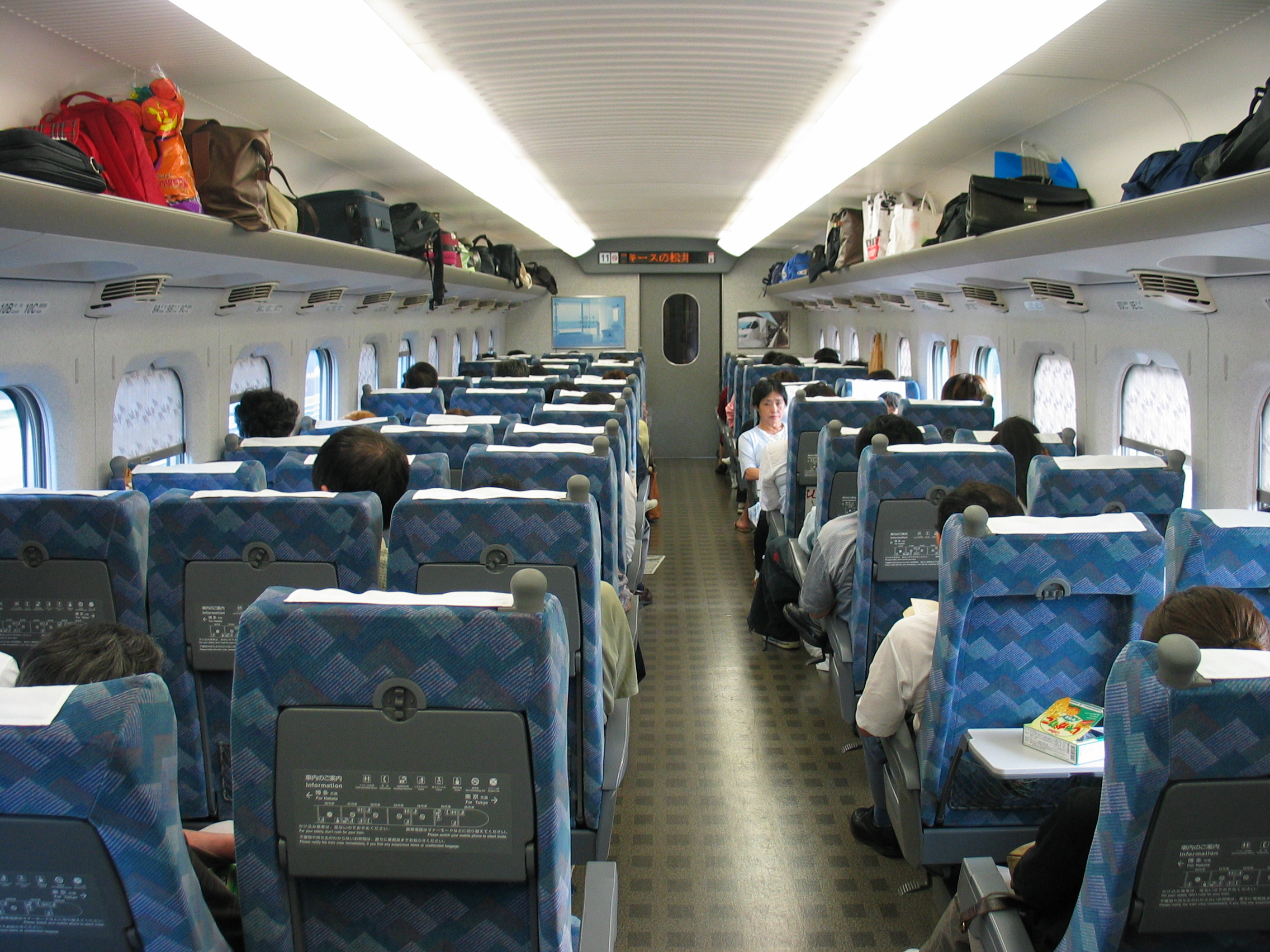 The interior of the regular car, 700 Series Shinkansen ( Nozomi ), September 2004.